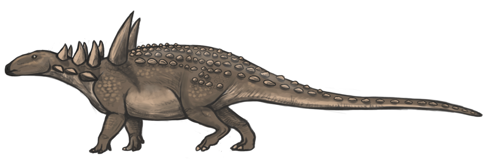 Simple reconstruction of Sauropelta edwardsorum, an early Cretaceous North American nodosaurid dinosaur.